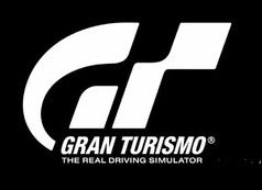 New logo for GT since GT6.